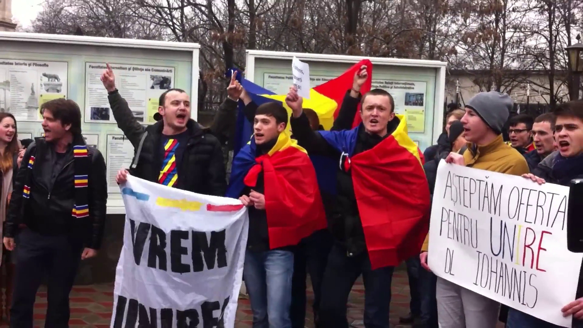 Young people seen in Chișinău in 2015 demanding Romanian president, Mr. Klaus Iohannis, the Unification of Romania and Republic of Moldova